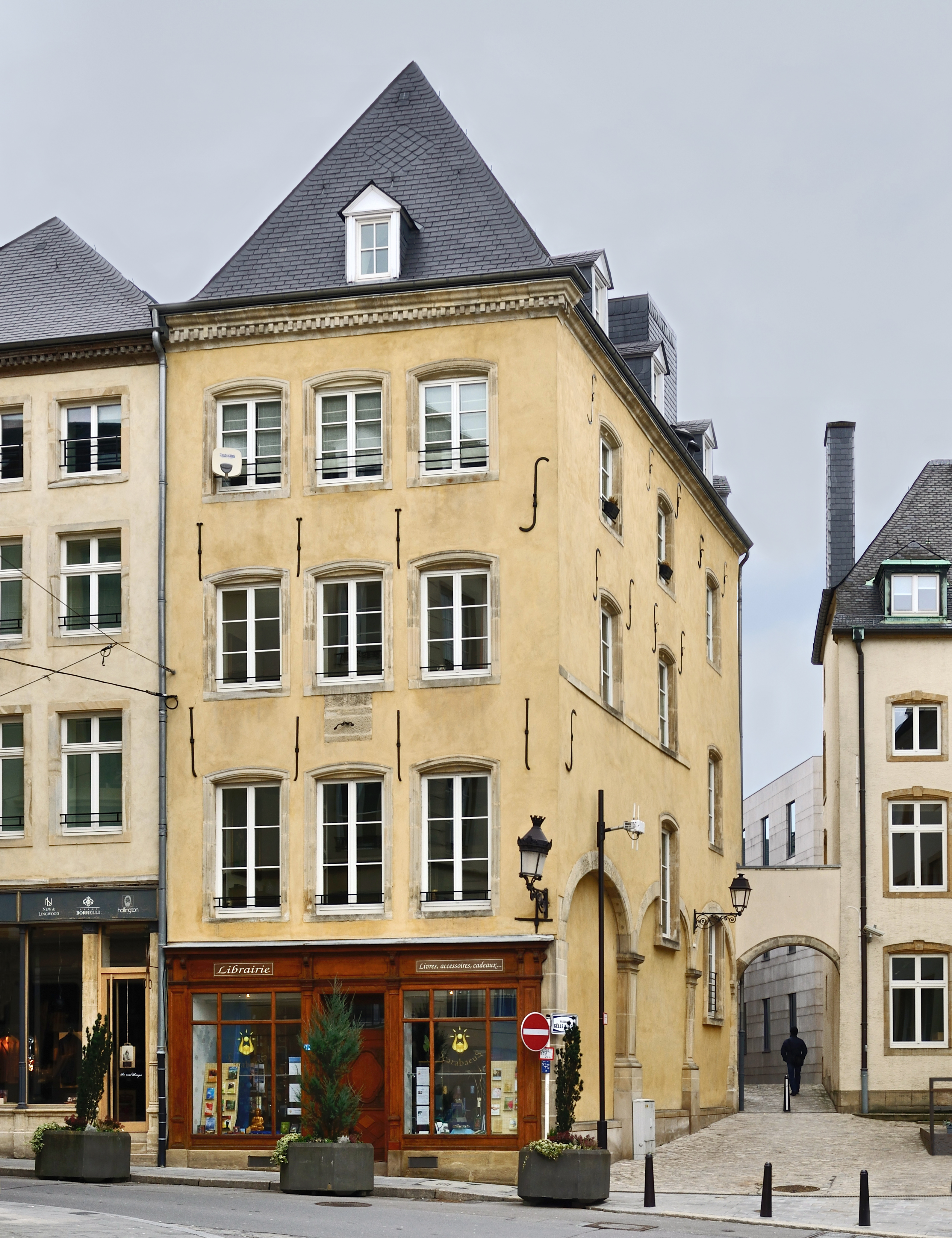 Maison Croeff, 11, rue de la boucherie in Luxembourg City. The name of the house comes from Hubert Croeff, who owned and transformed it in 1605. The house is listed as since October 20 1961